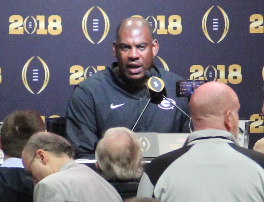 Mel Tucker in 2018